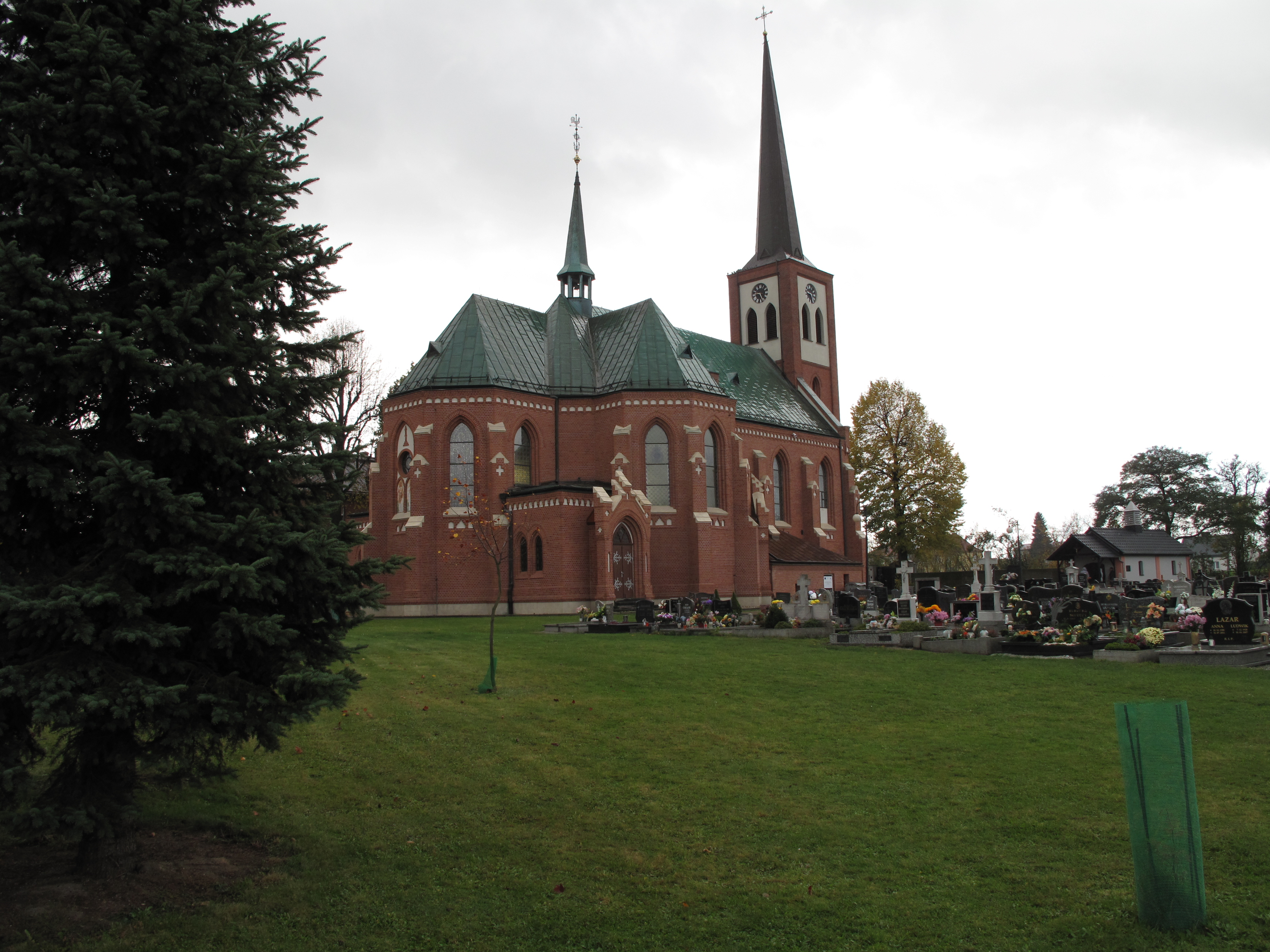 Borucin. Racibórz County, Poland